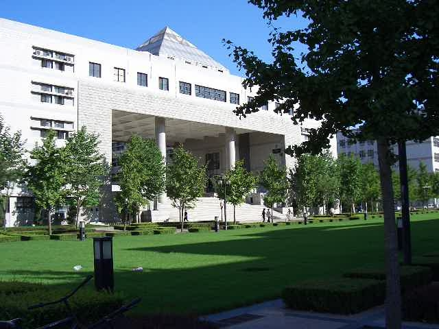 Unusual architecture at Tsinghua University in Beijing, China.